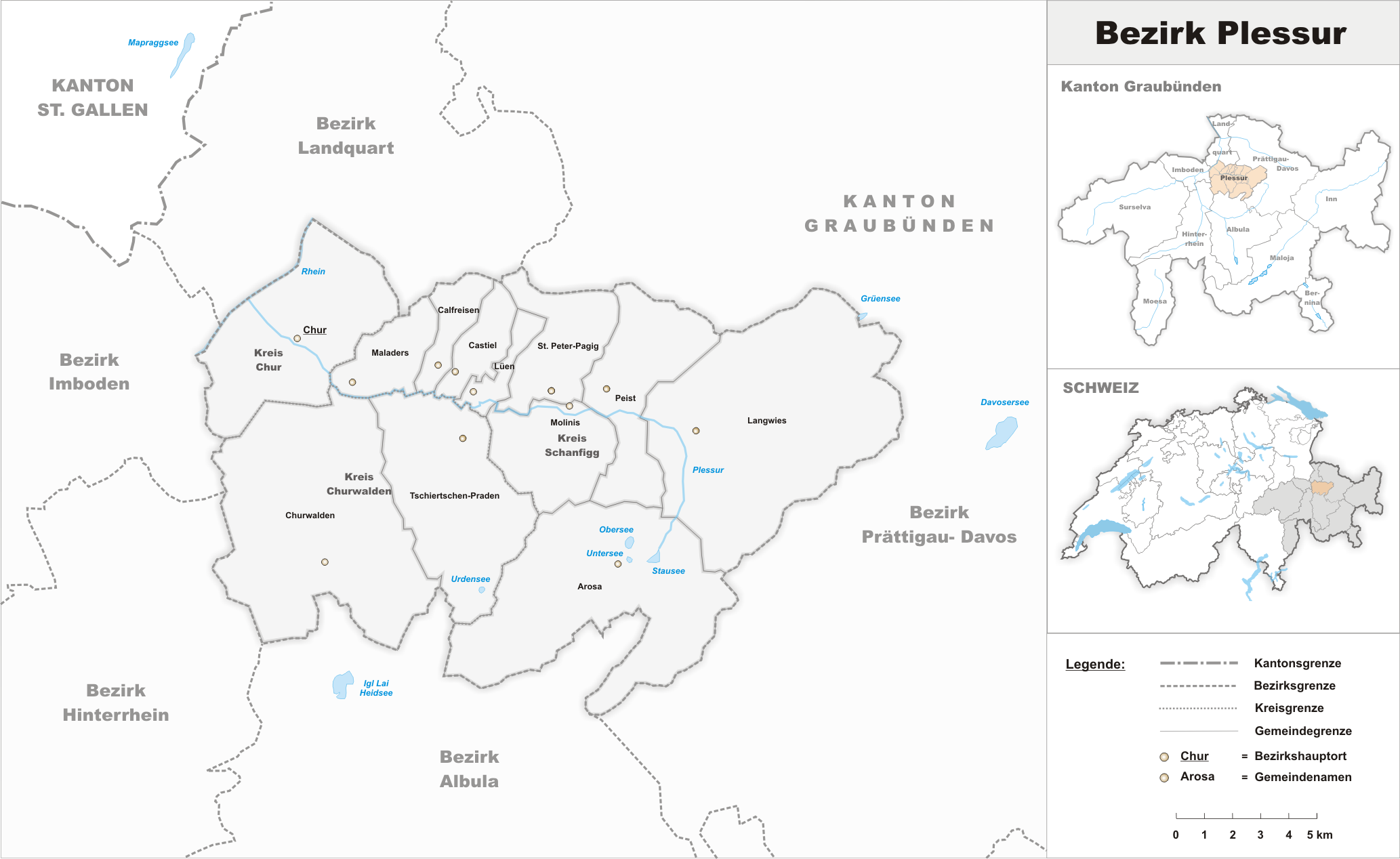 Municipalities in the district of Plessur to 2010